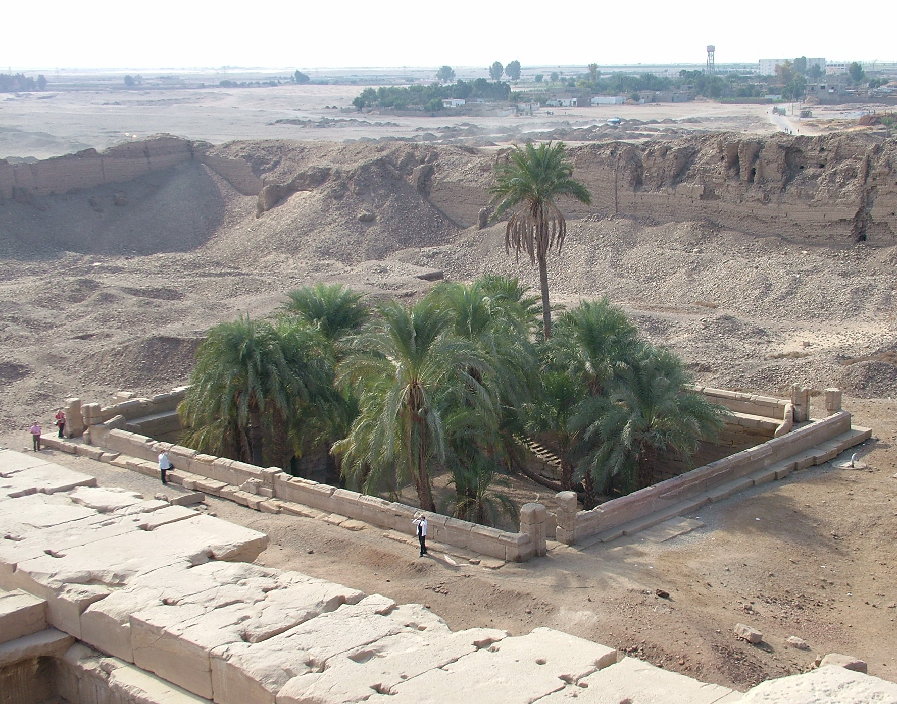 Sacred lake in Dendara temple, Egypt